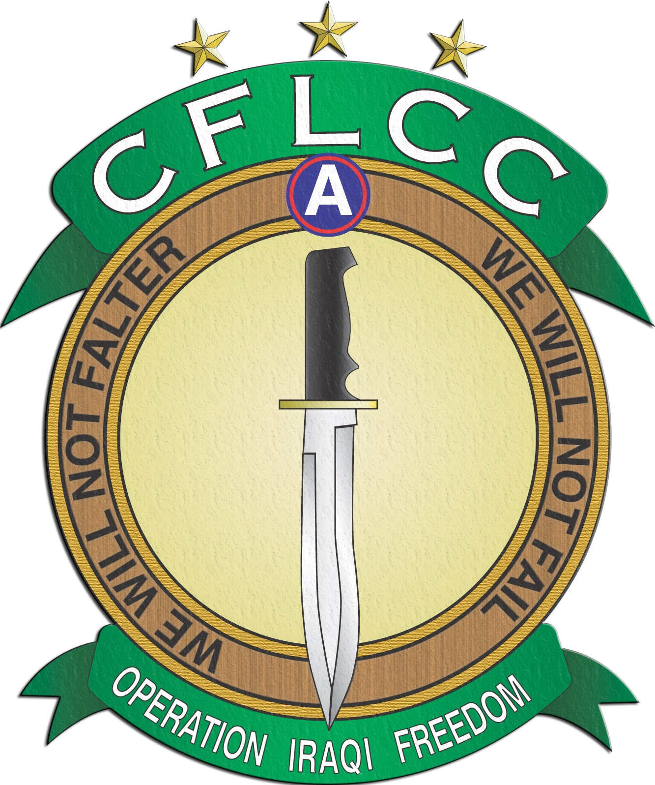 =CFLCC logo=